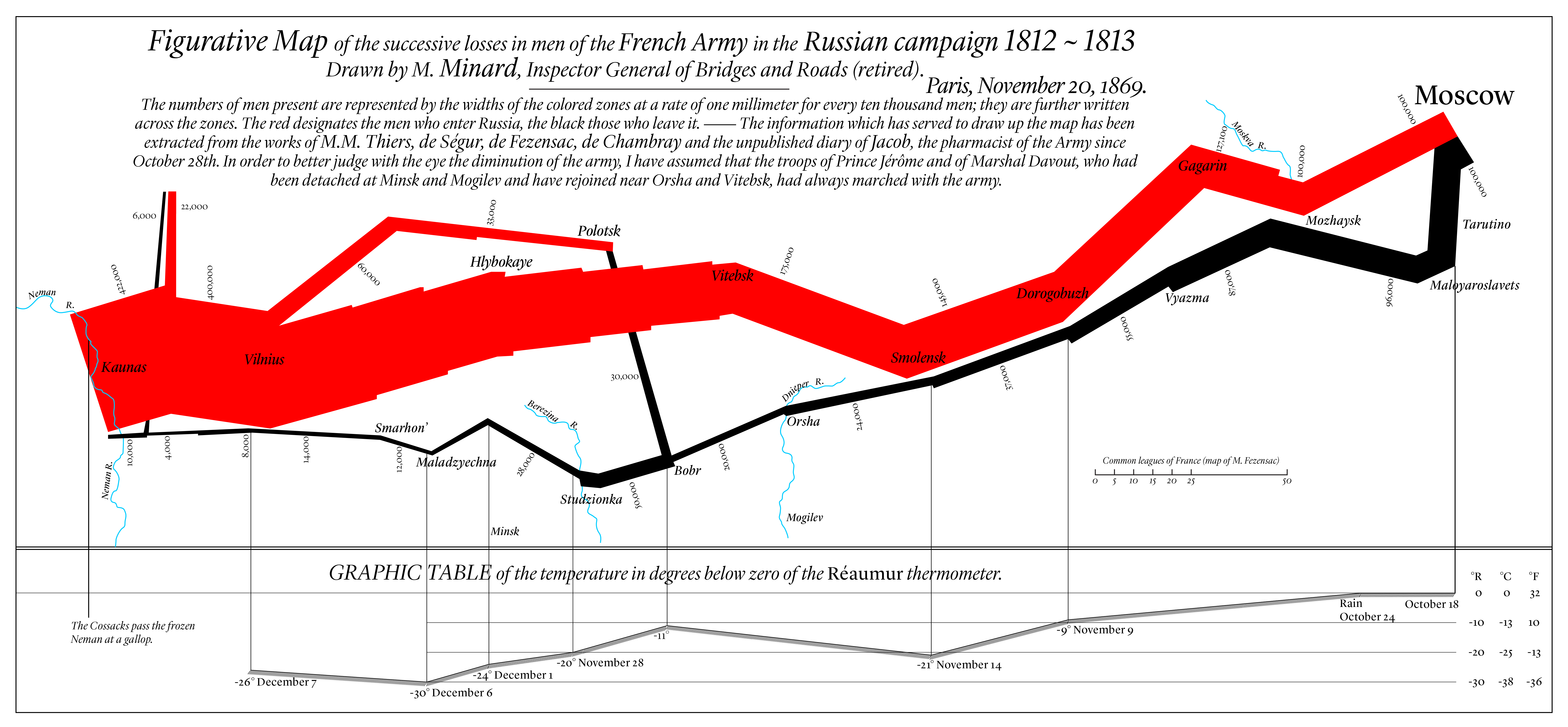 Modern redrawing of Charles Joseph Minard's figurative map of the 1812 French invasion of Russia, including a table of temperatures translated from Réaumur to Fahrenheit and Celsius.